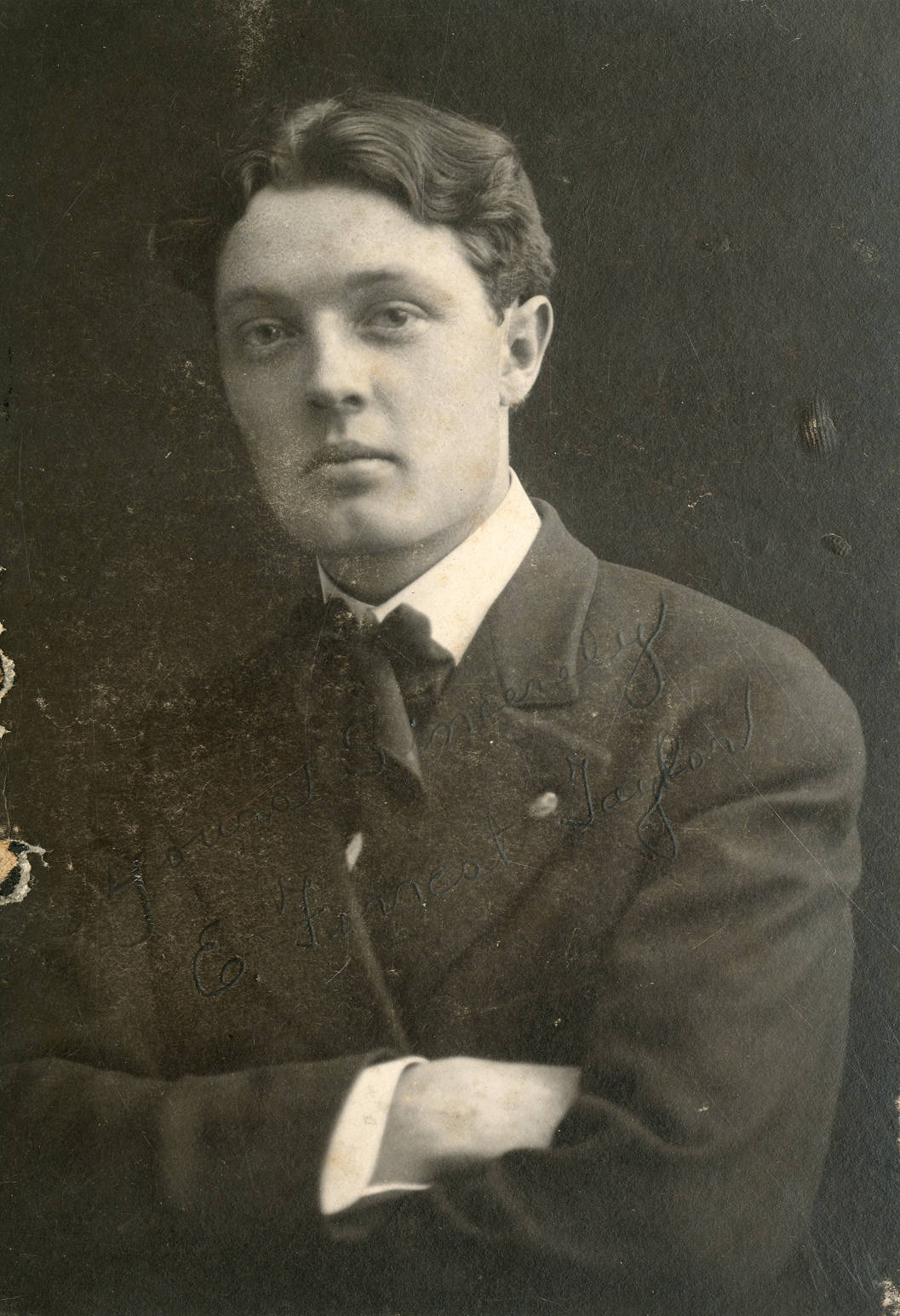 E. Forrest Taylor, stage actor Subjects: actors